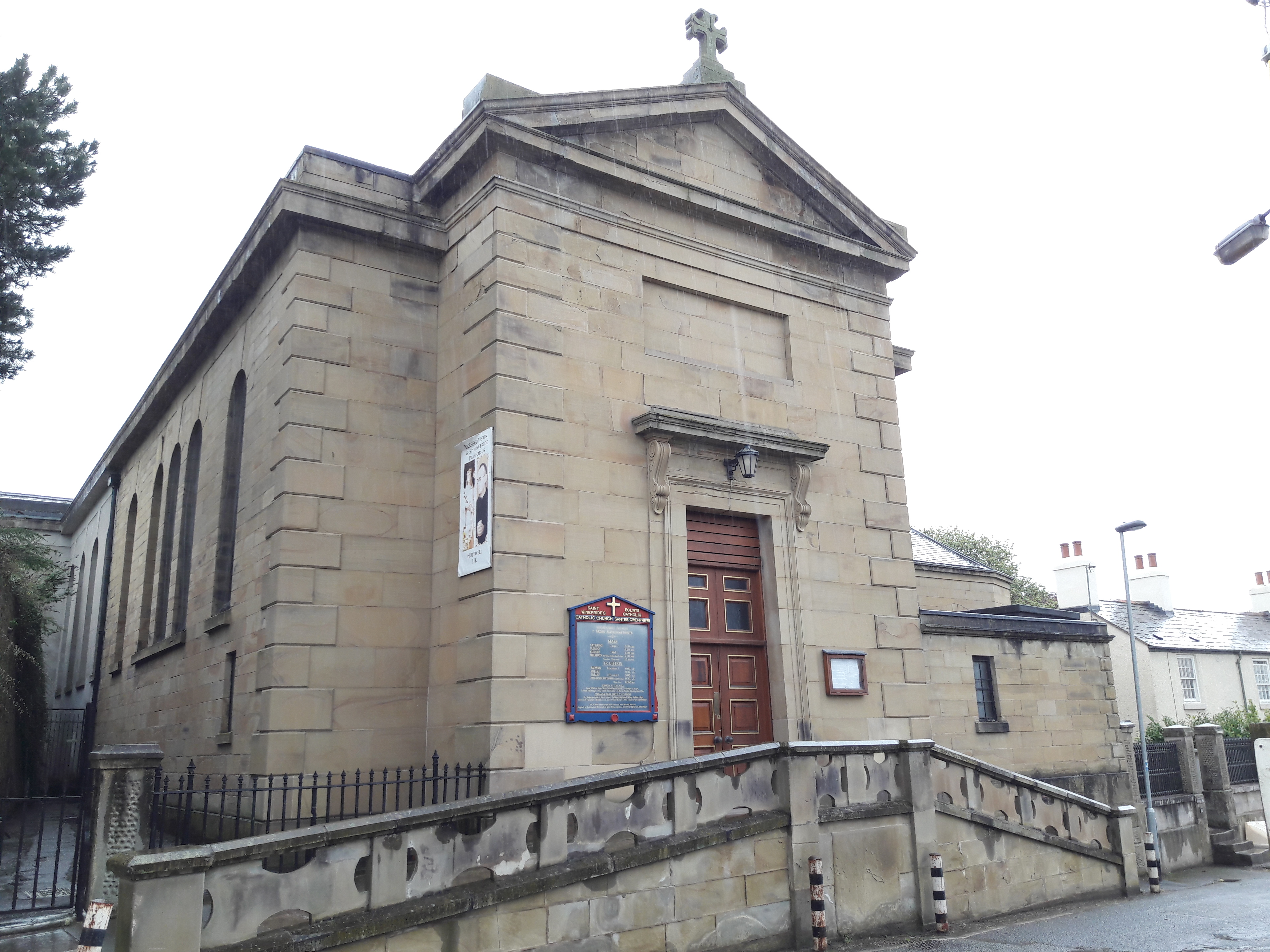 St Winefride's Catholic Church , founded by the Society of Jesus, administered by the Vocationist Fathers, in Holywell, Wales